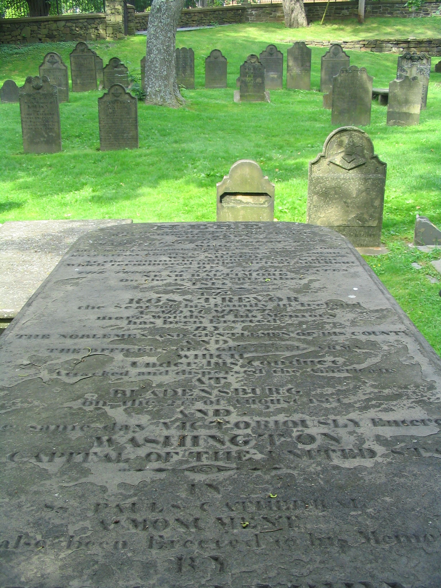 Tomb of Major General Robert Ross